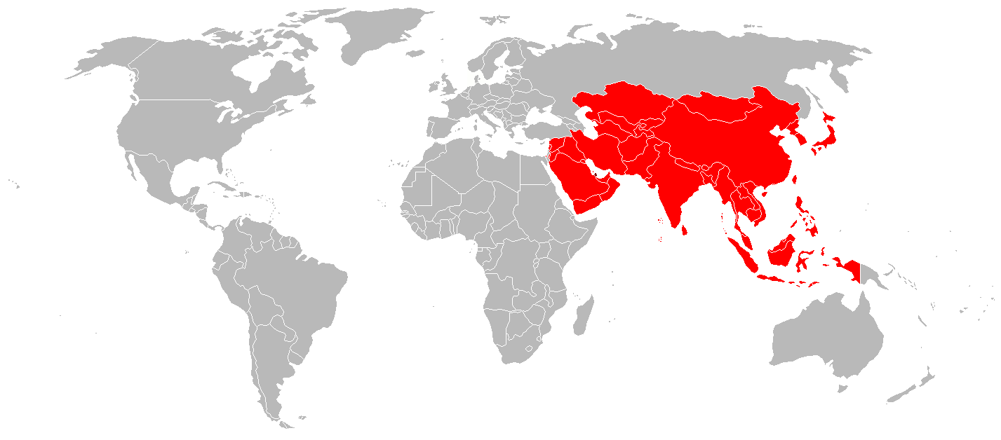 Participating countries in the en:2006 Asian Games Red = Non-host Maroon = Host